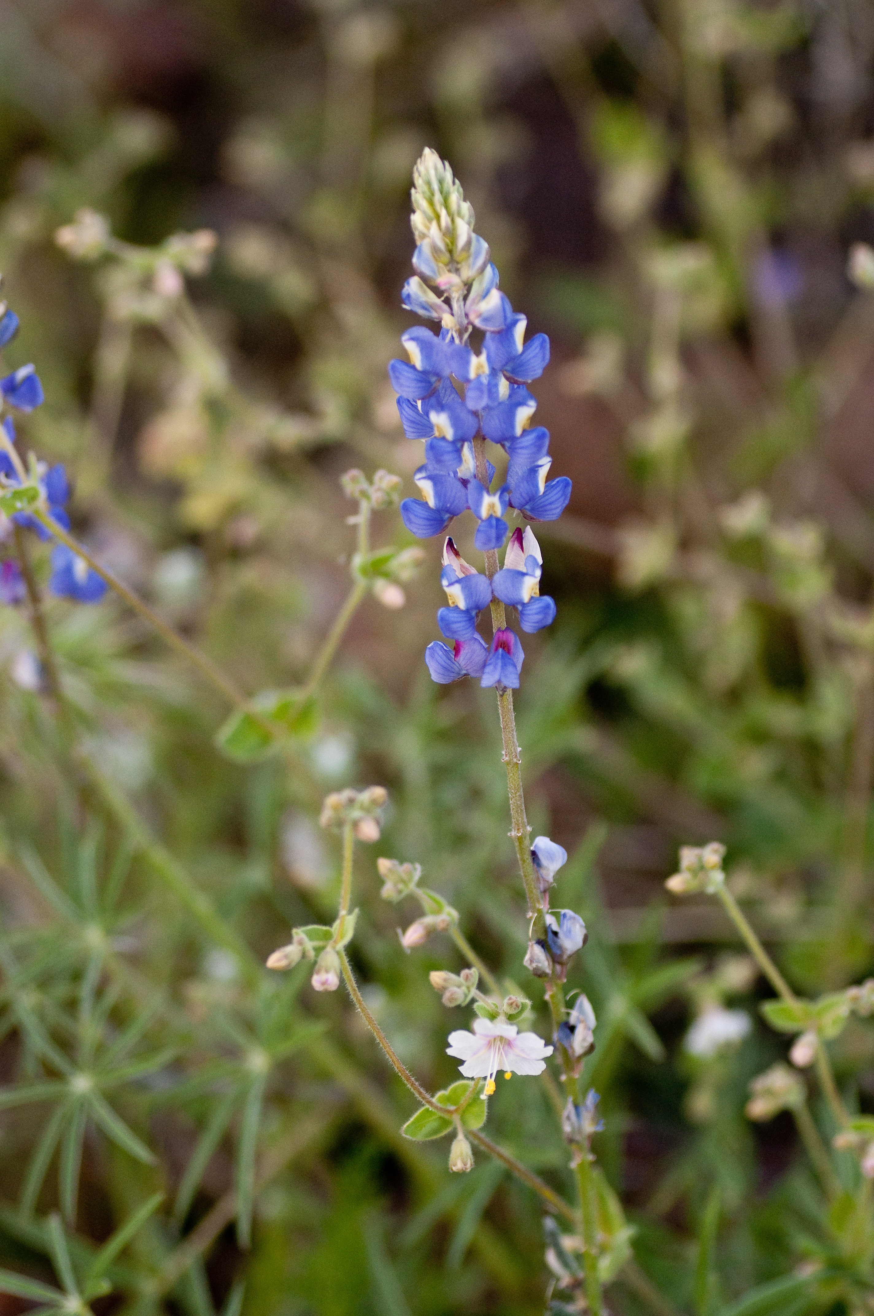 Out in the Arizona desert for a few days. Will clean these up when I get home. Maybe.